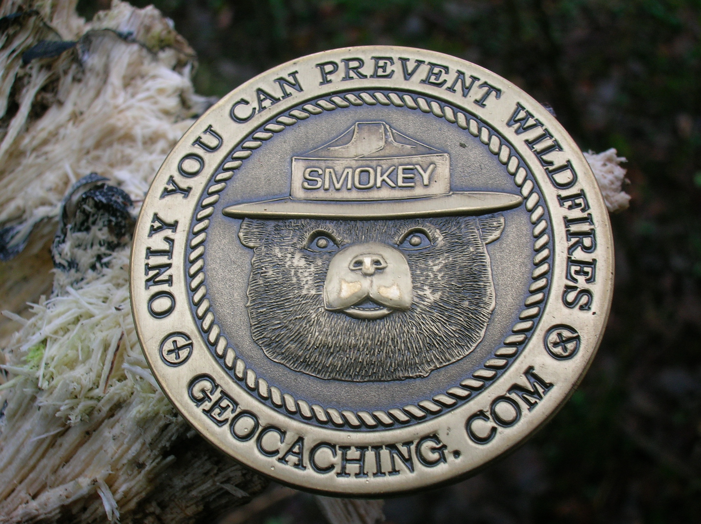 A Geocaching Geocoin